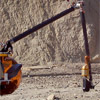 Phoenix Spacecraft RA